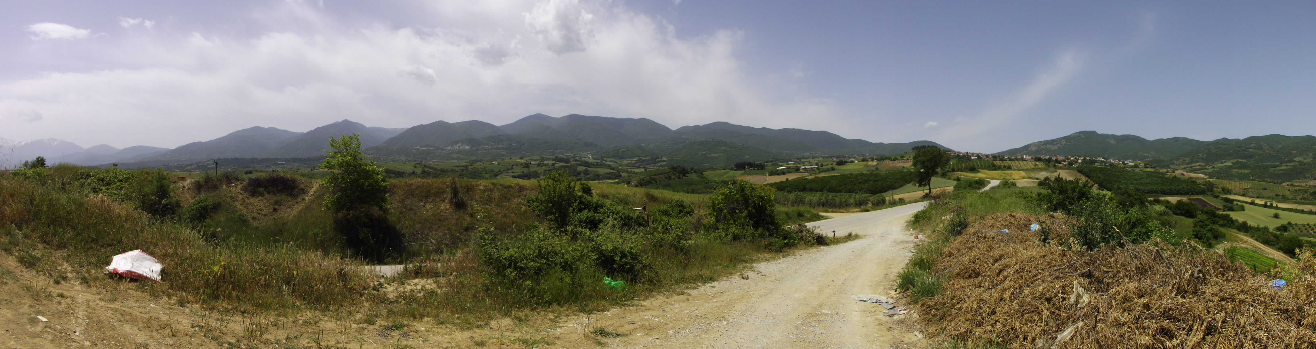 Panorama of the Pierian mountain range